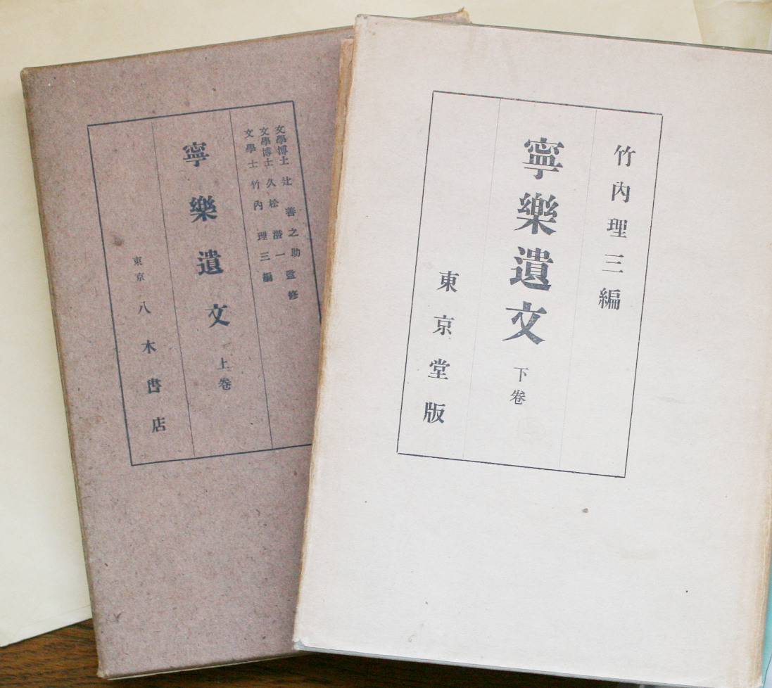 Nara IBUN First Edition Vo1&2, by Takeuchi Rizo, !st volume was published by YAGI SHOTEN, and 2nd by TOKYODO Co.Ltd.